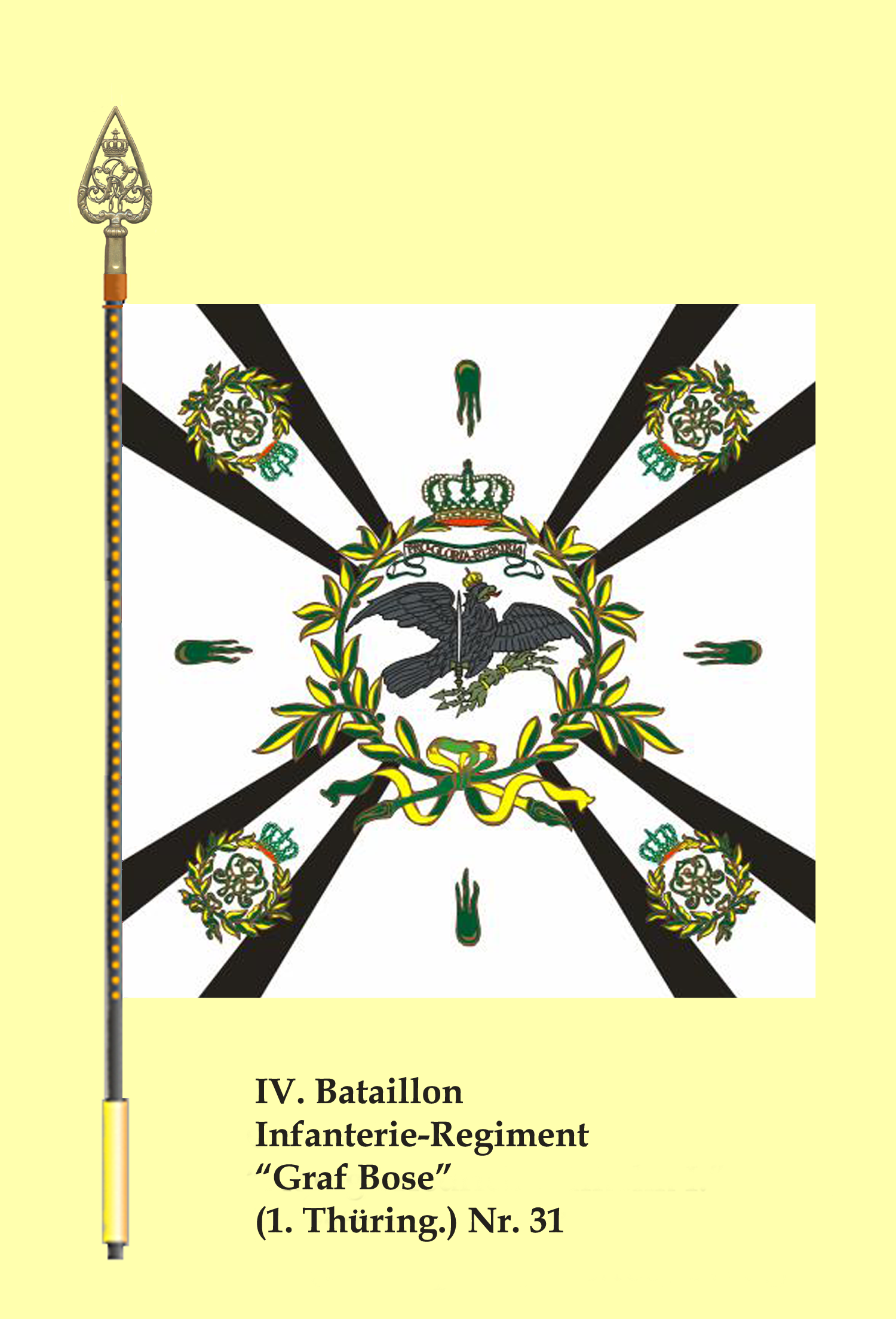 Colors of the IV. Battalion of the prussian 31st Infantry Regiment